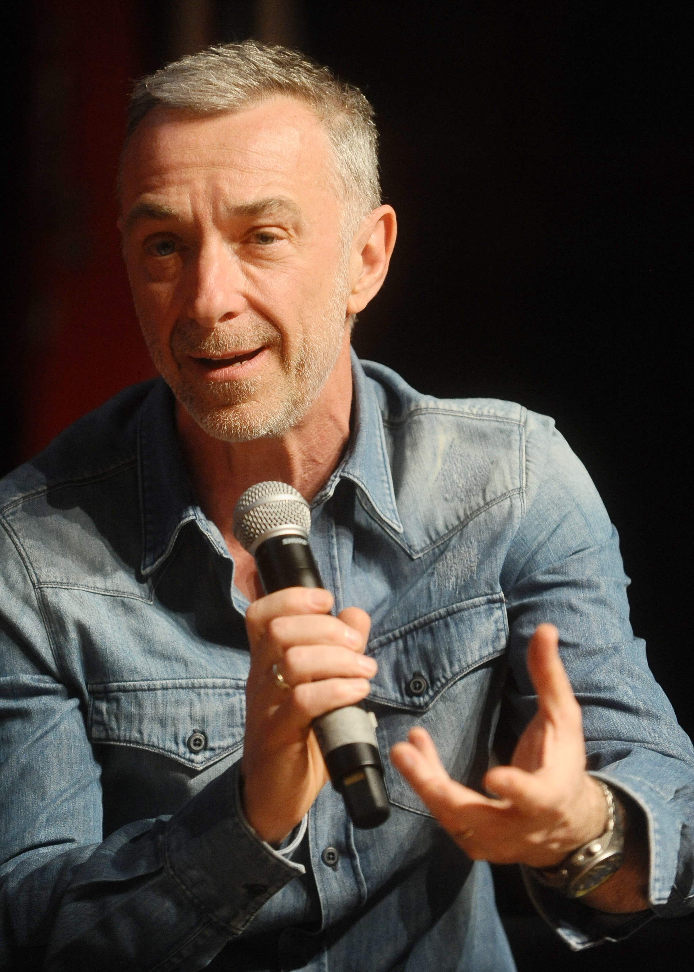 Linus at the international Journalism Festival in Perugia